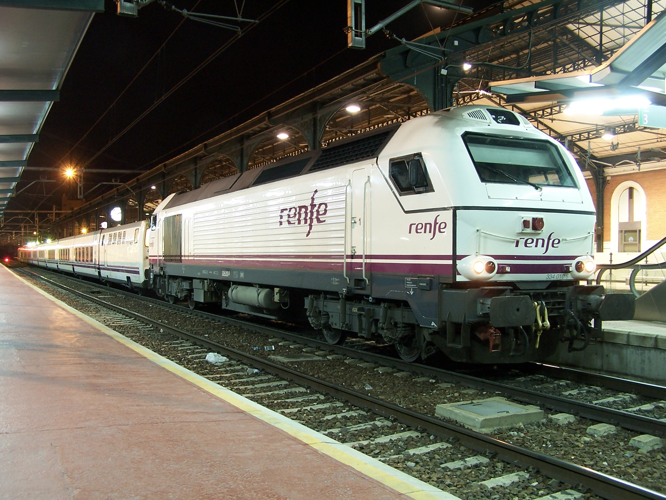 Sud Express at Valladolid Great Country station with Talgo coaches and 334 locomotive.